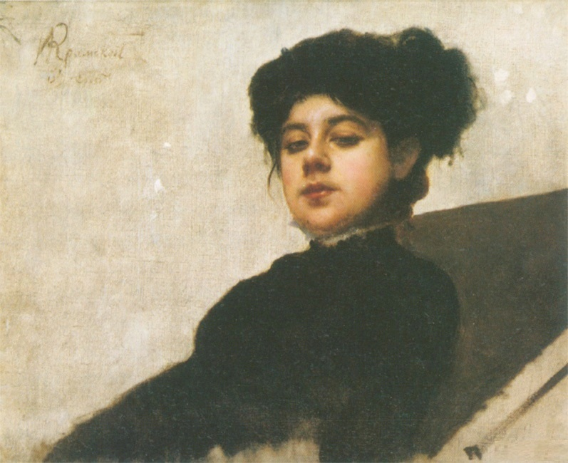 Study for Portrait of an Unknown Woman